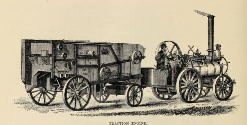 Robey Traction engine towing thrashing machine. Exhibited at the 1862 International Exhibition at Earl's Court.